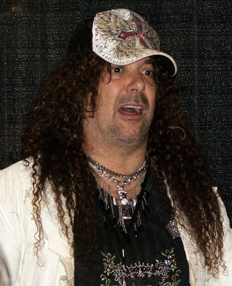 Jess Harnell attending the Calgary Comic & Entertainment Expo in BMO Centre, Calgary, Alberta, Canada.